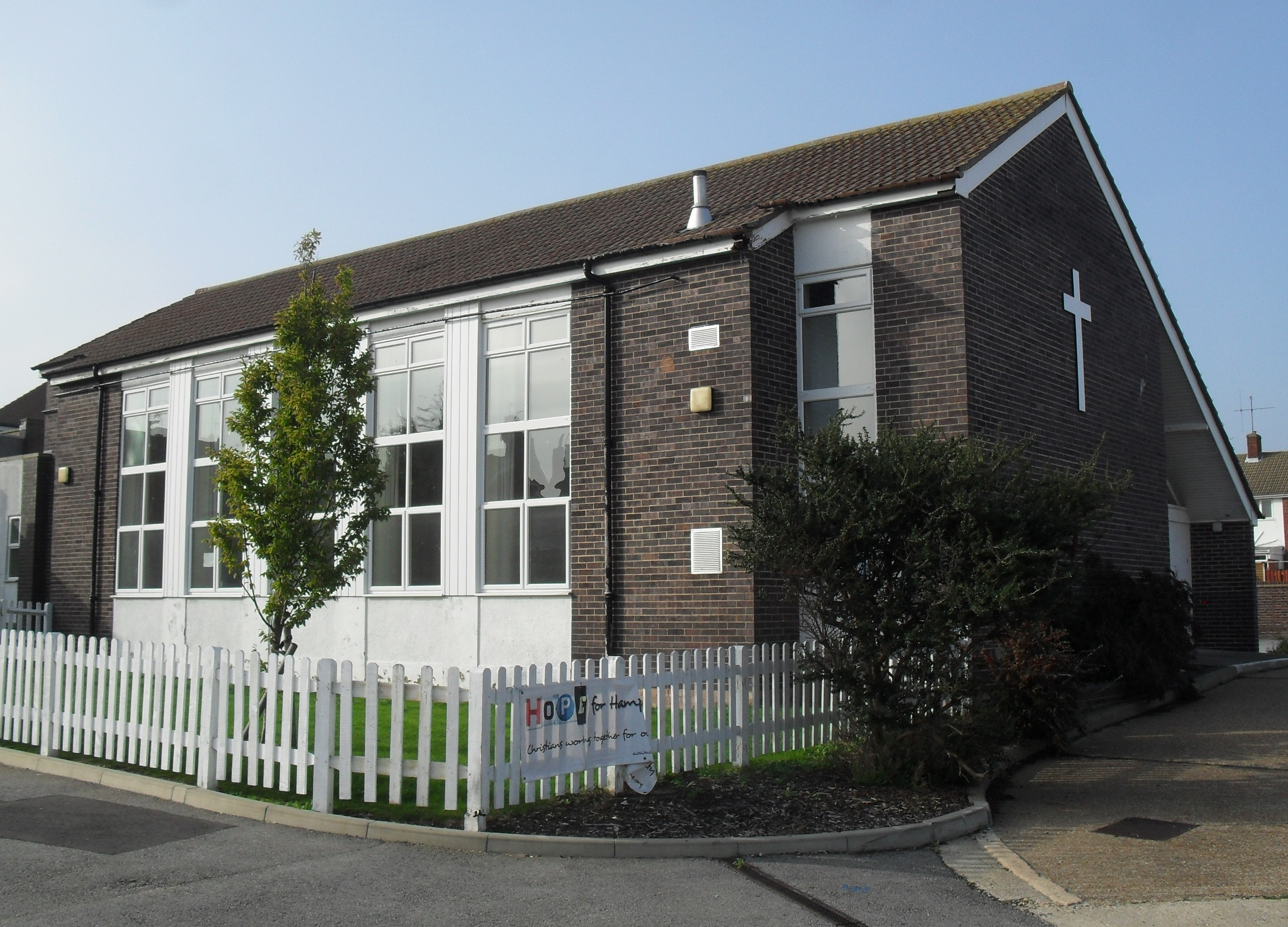 Broadway United Church, The Broadway, Hampden Park, Eastbourne, East Sussex, England. A Methodist church built in 1960 and dedicated to St Stephen; in 2008 it changed its name after uniting with St.Lukes United Reformed Church Elm Grove, Hampden Park congregation whose building has since been demolished.